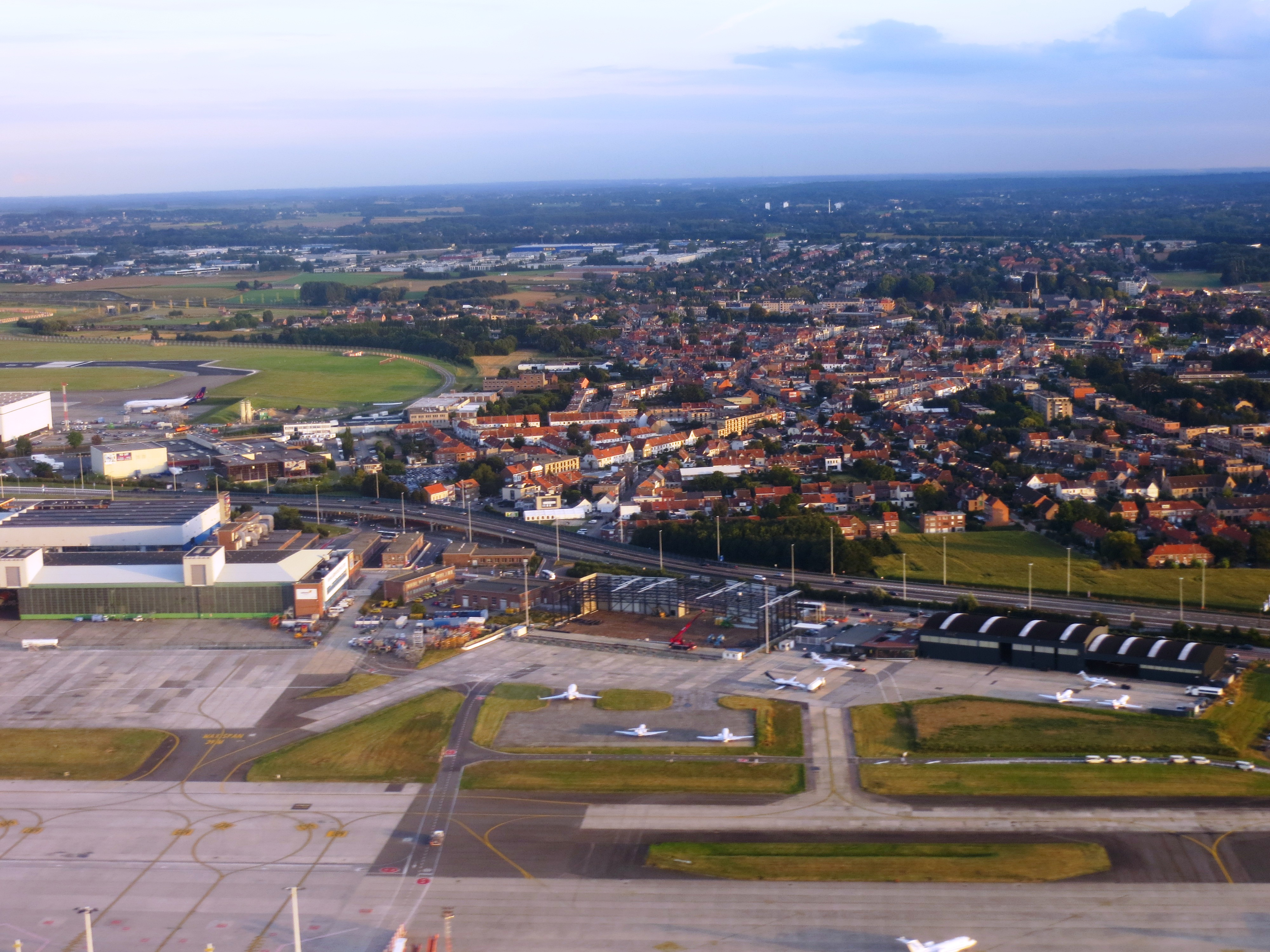 Aerial view over the Zaventeem area of northern Brussels, around the Brussels airport. Belgium.